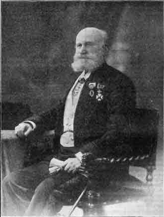 French mathematician and engineer Maurice Lévy (1838-1910)